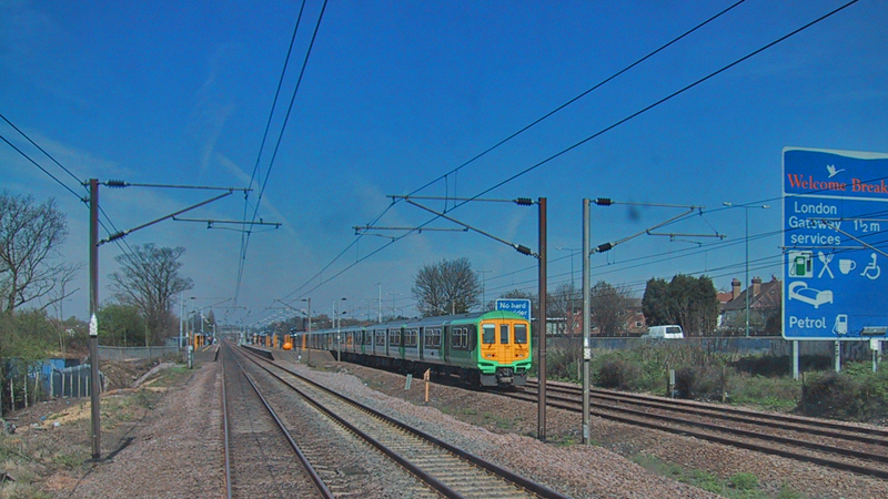 A Southern-liveried Class 319 train waits near Mill Hill Broadway station on the Midland Main Line.